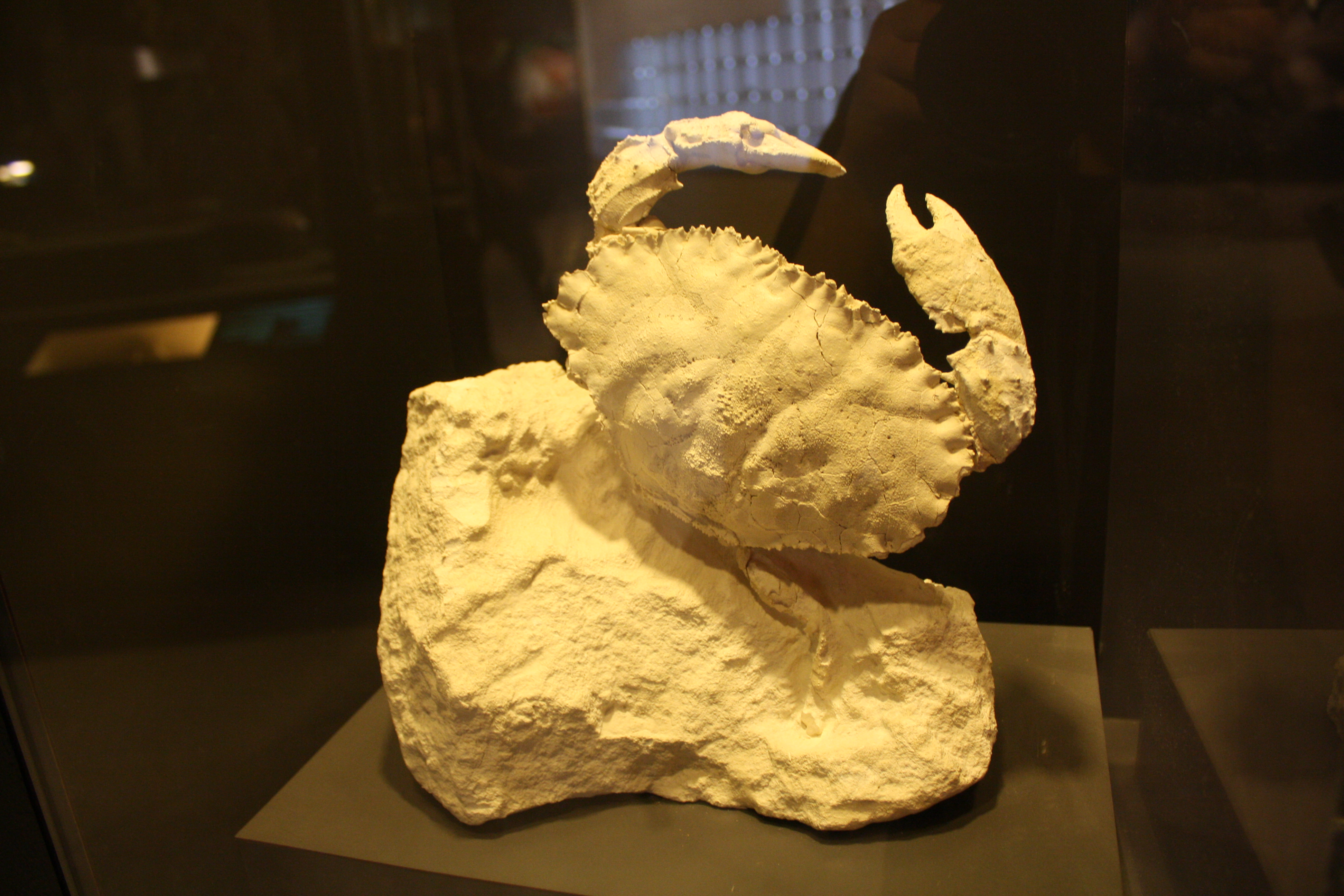 Crab, Lobocarcinus sismondai (syn. Cancer sismondae) (Oligocene, Pulgia, Italy) HMNS 645 Wikipedia Loves Art at the Houston Museum of Natural Science This photo of item # [1] at the Houston Museum of Natural Science was contributed under the team name "The_Wookies" as part of the Wikipedia Loves Art project in February 2009. Houston Museum of Natural Science The original photograph on Flickr was taken by andytang20—please add a comment to the original Flickr page whenever a use has been made on Wikipedia or another project. Project galleries on Flickr: this institution, this team